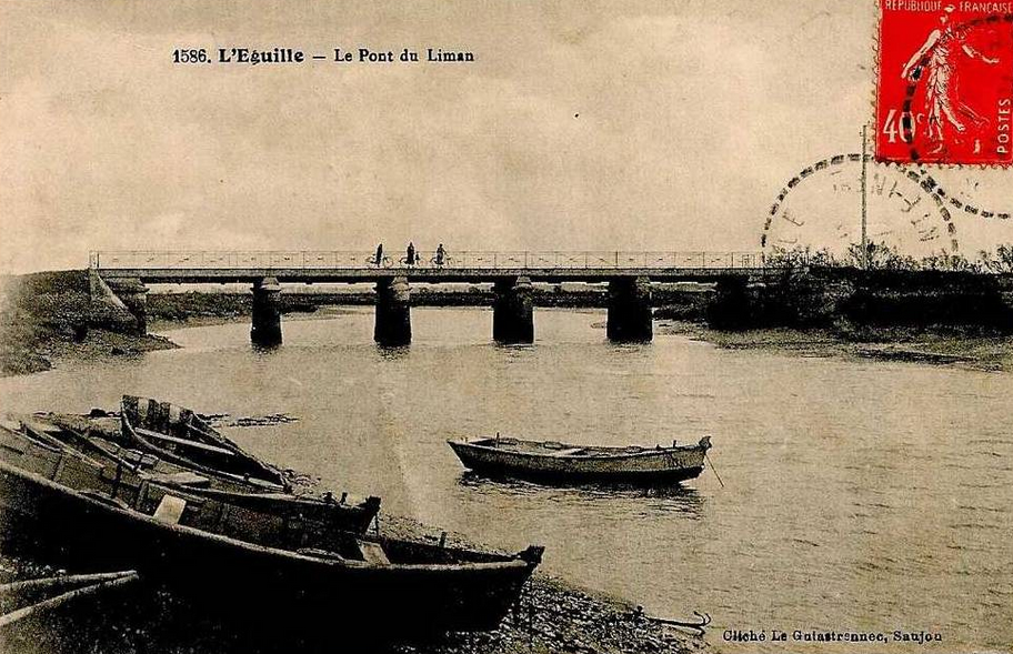 Pont sur le Liman à l'Éguille-sur-Seudre